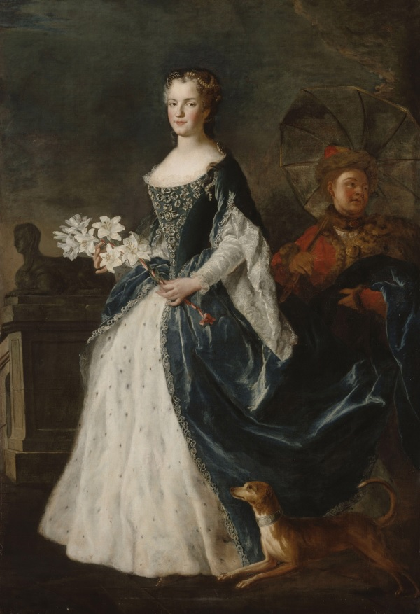 Portrait of Maria Leszczynska